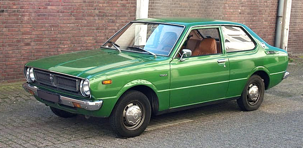 1976 Toyota Corolla, green